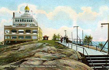 Mount Tom Summit House. Holyoke, Massachusetts. Postcard dated between 1898-1900.